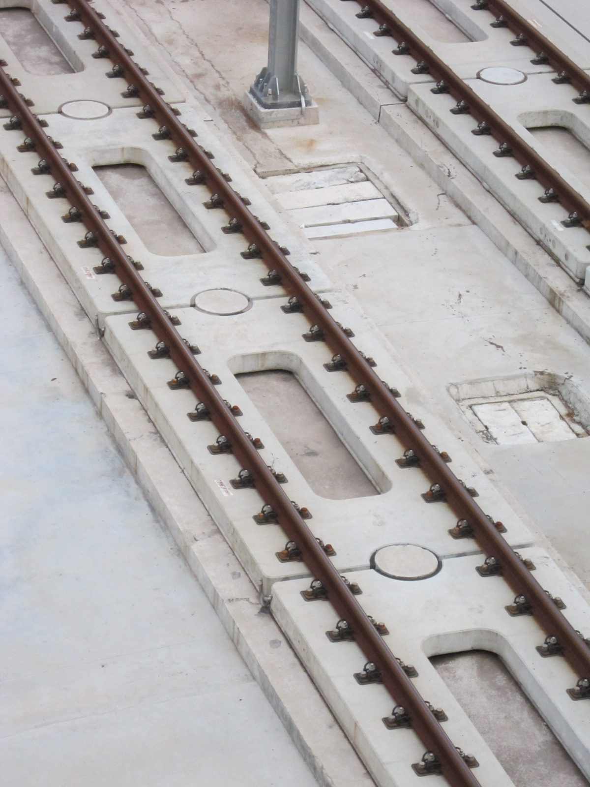 Type CRTS-I slab track